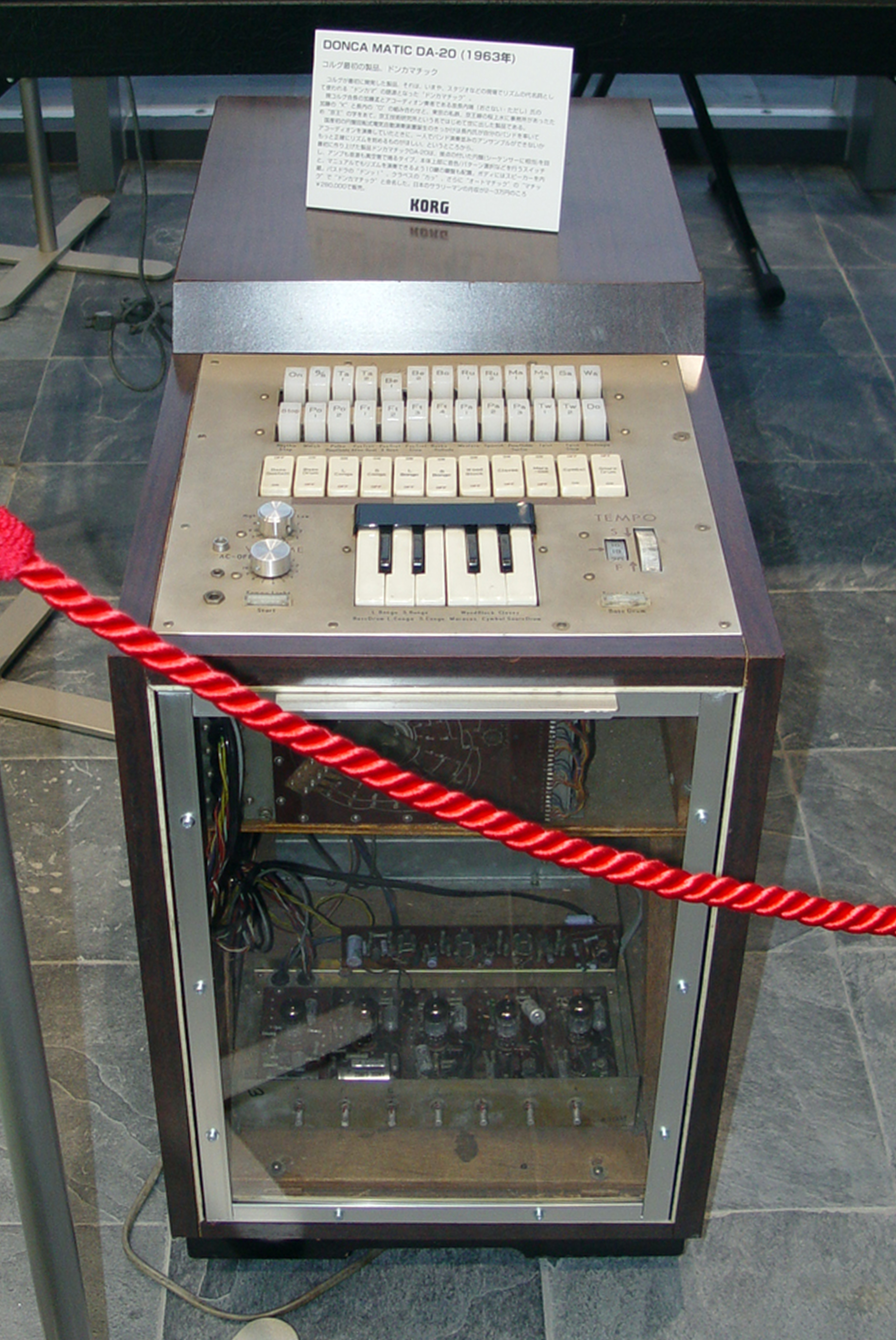 Korg Donca-Matic DA-20, one of the first drum machines, on display in the ground floor museum at their Tokyo office.